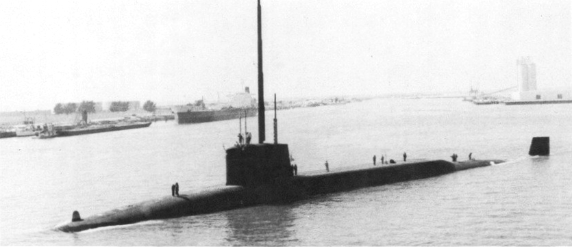 The Royal Navy ballistic missile submarine HMS Resolution (S22), probably at Cape Canaveral, Florida (USA). Resolution was in Florida for a Polaris A-3 missile launch, in July 1977.